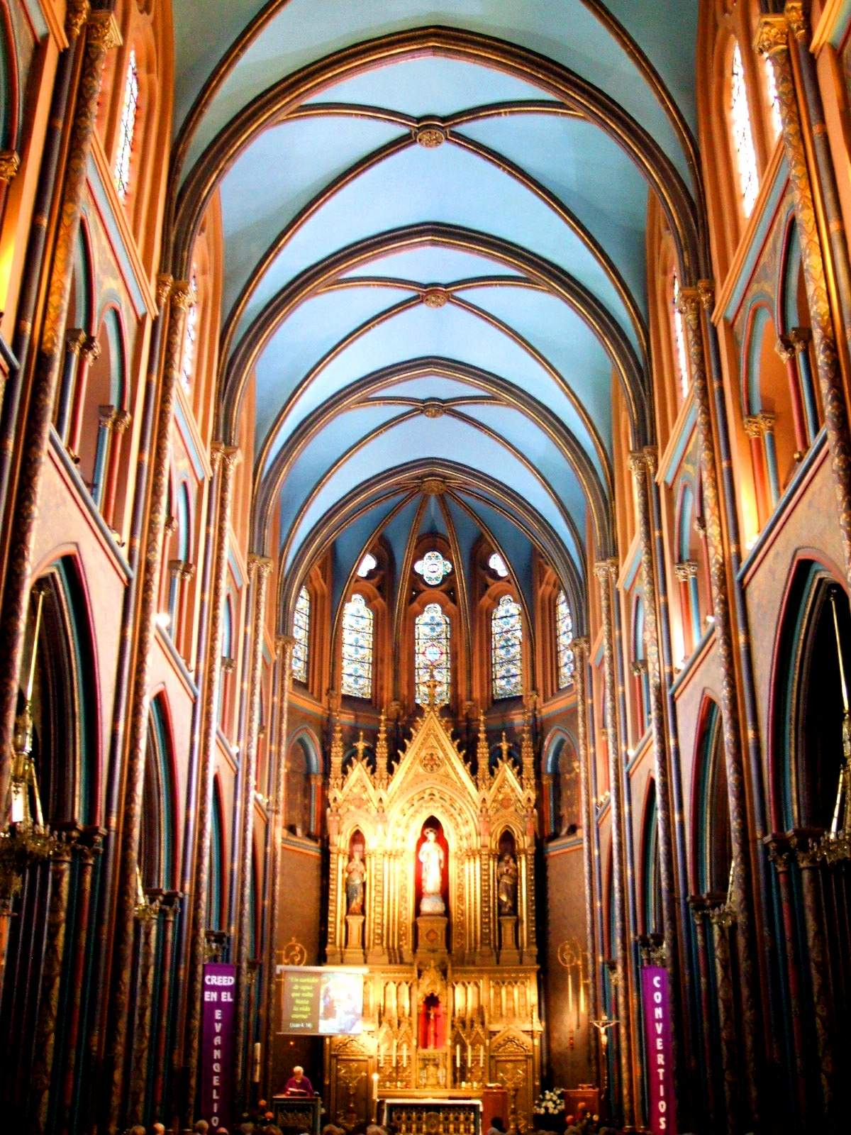 Iglesia del Sagrado Corazón, Bilbao (País Vasco, España)